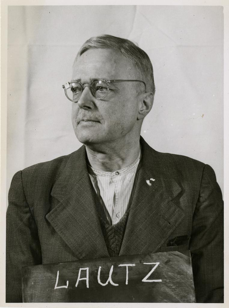 Ernst Lautz (1887-1979) was Chief Public Prosecutor of the People's Court during the Second World War. This photograph of Lautz (probably as a defendant during the Nurmeberg Trials No. III - the Justice Case) was taken by US Army photographers on behalf of the Office of the U.S. Chief of Counsel for the Prosecution of Axis Criminality (OUSCCPAC, May 1945 - Oct. 1946) or its successor organization, the Office of Chief of Counsel for War Crimes (OCCWC, Oct. 1946 - June 1949).